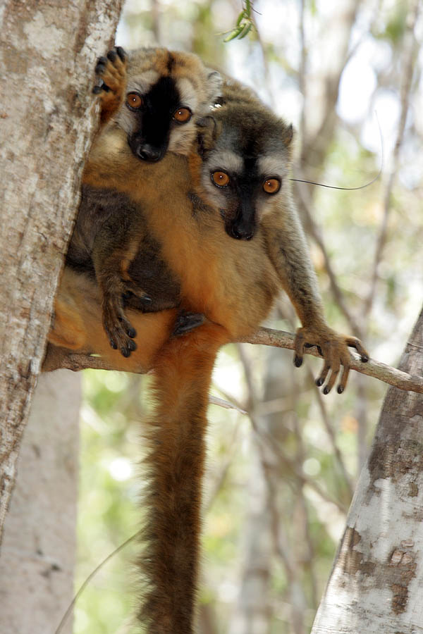 Eulemur rufifrons (red-fronted brown lemurs) at the Kirindy Forest Reserve, Madagascar Note: Location and appearance confirm these to be Eulemur rufifrons, not common brown lemurs (Eulemur fulvus)—see "Lemurs of Madagascar" by Mittermeier, et al.